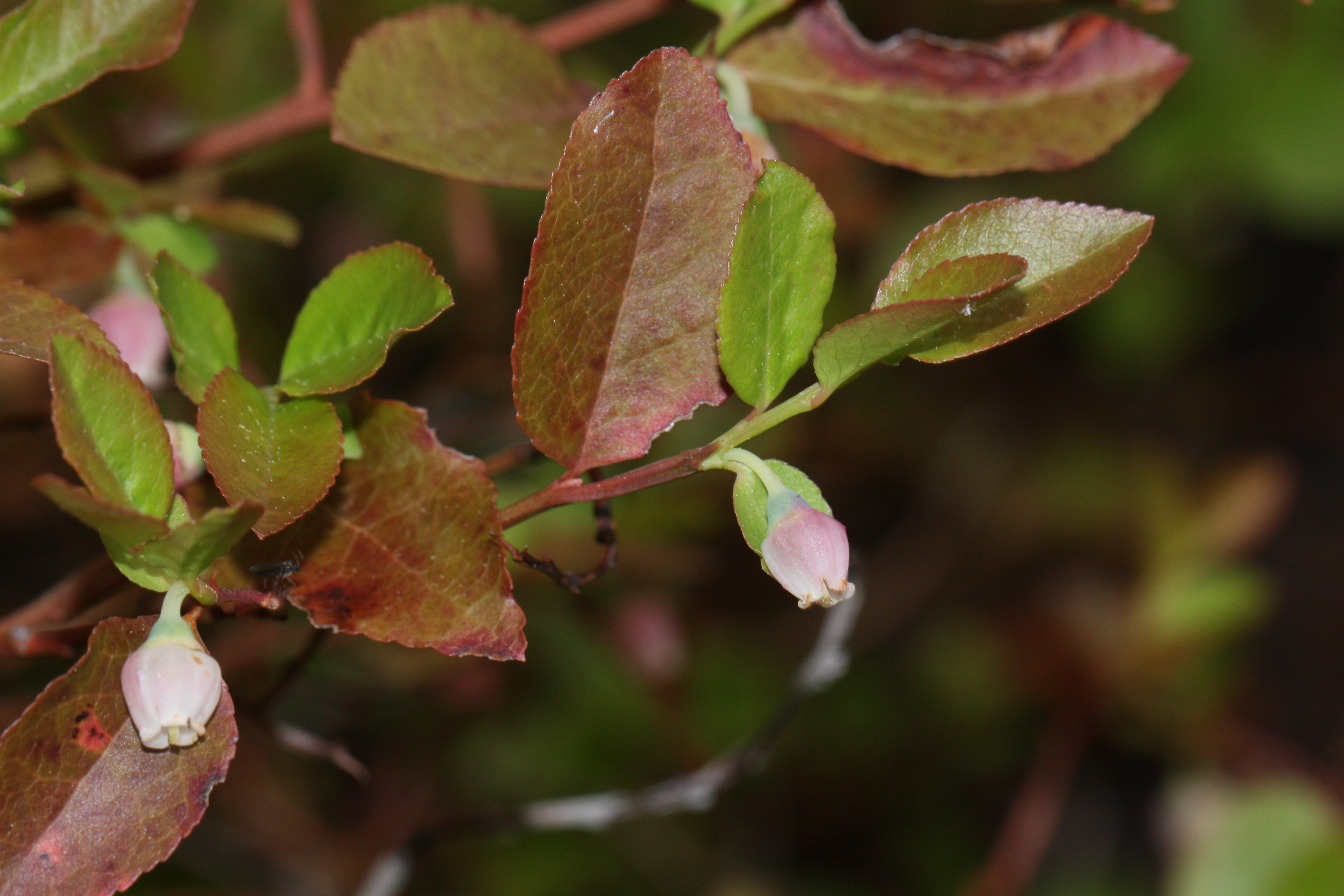 Dwarf Blueberry, Whortleberry, Low Blueberry Viewpoint location: Tronsen Ridge Trail #1204, Tronsen Ridge Viewpoint elevation: 1394 meter (4573 ft) Location source: Garmin GPSmap 60CSx Location Datum: WGS84